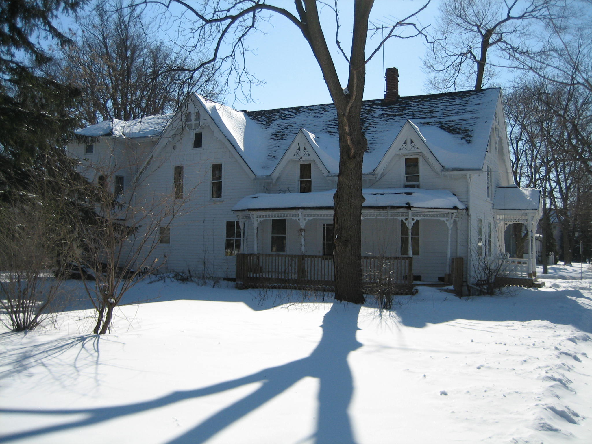 232 S. Main St. Chappell-Whittemore House, Sycamore, Illinois, Sycamore Historic District. National Register of Historic Places.